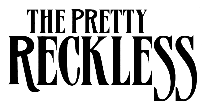 The Pretty Reckless Logo